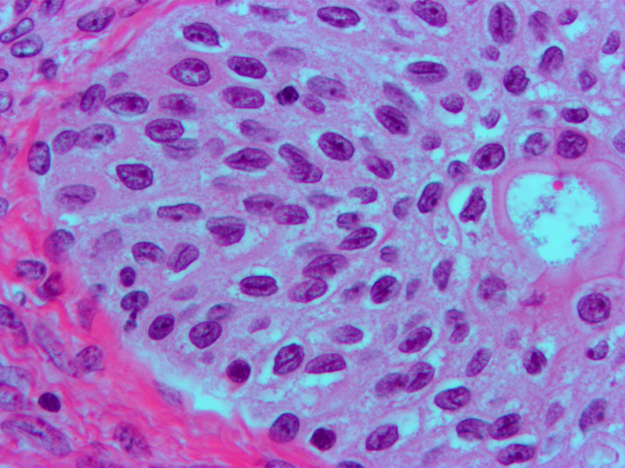 Micrograph of a Brenner tumour. H&E stain. High magnification. These tumours are thought to arise from Walthard cell rests. On high magnification, they exhibit characteristic coffee bean nuclei (clearly visible in image). On low magnification, they resemble urothelial cell nests. See also Image:Brenner tumour intermed mag.jpg - intermediate magnification (high resolution) Image:Brenner tumour high mag.jpg - high magnification (high resolution) Image:Brenner_tumour2.jpg - low magnification Image:Brenner_tumour3.jpg - intermediate magnification